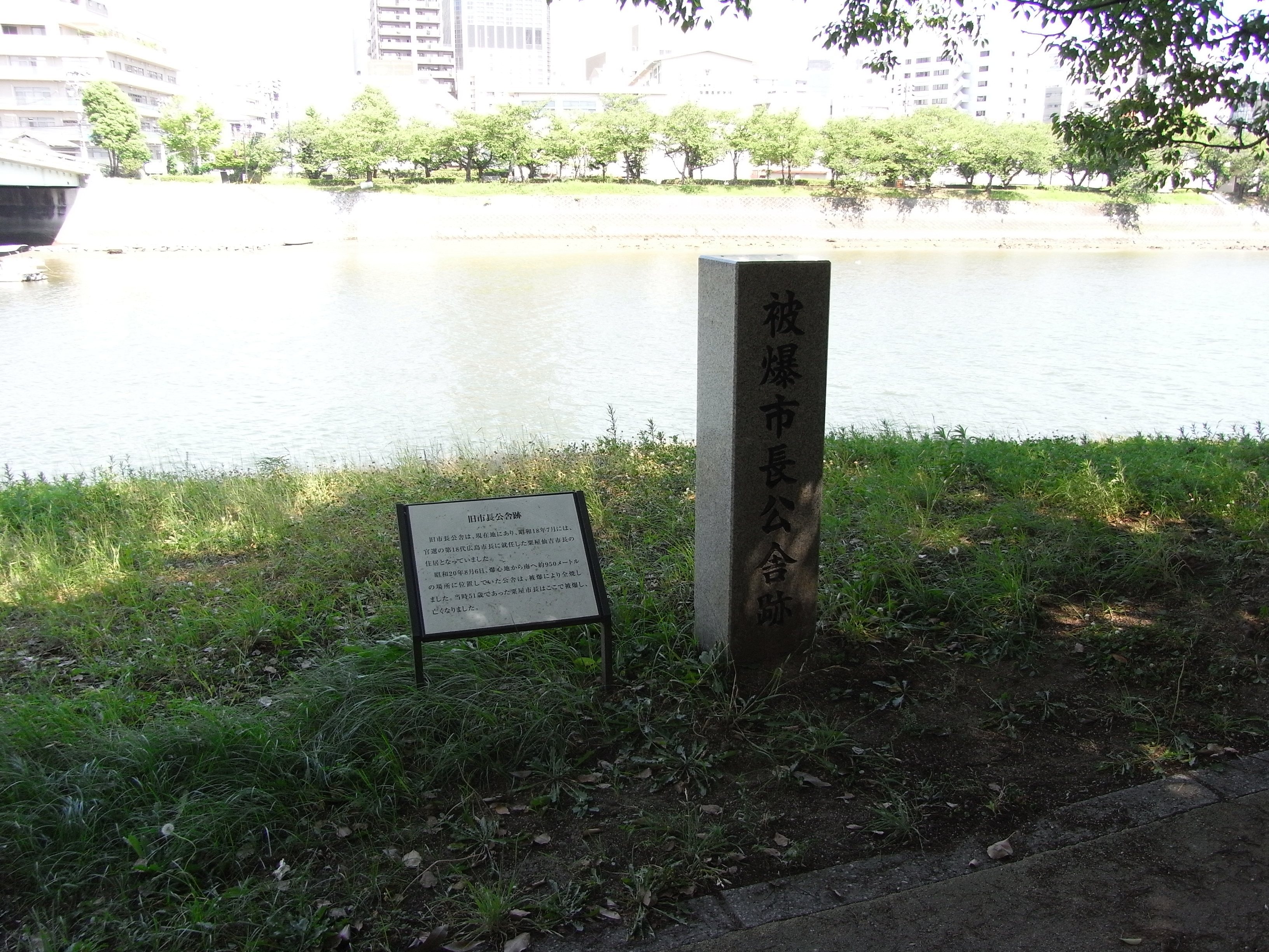 The cenotaph for Senkichi Awaya, mayor of Hiroshima